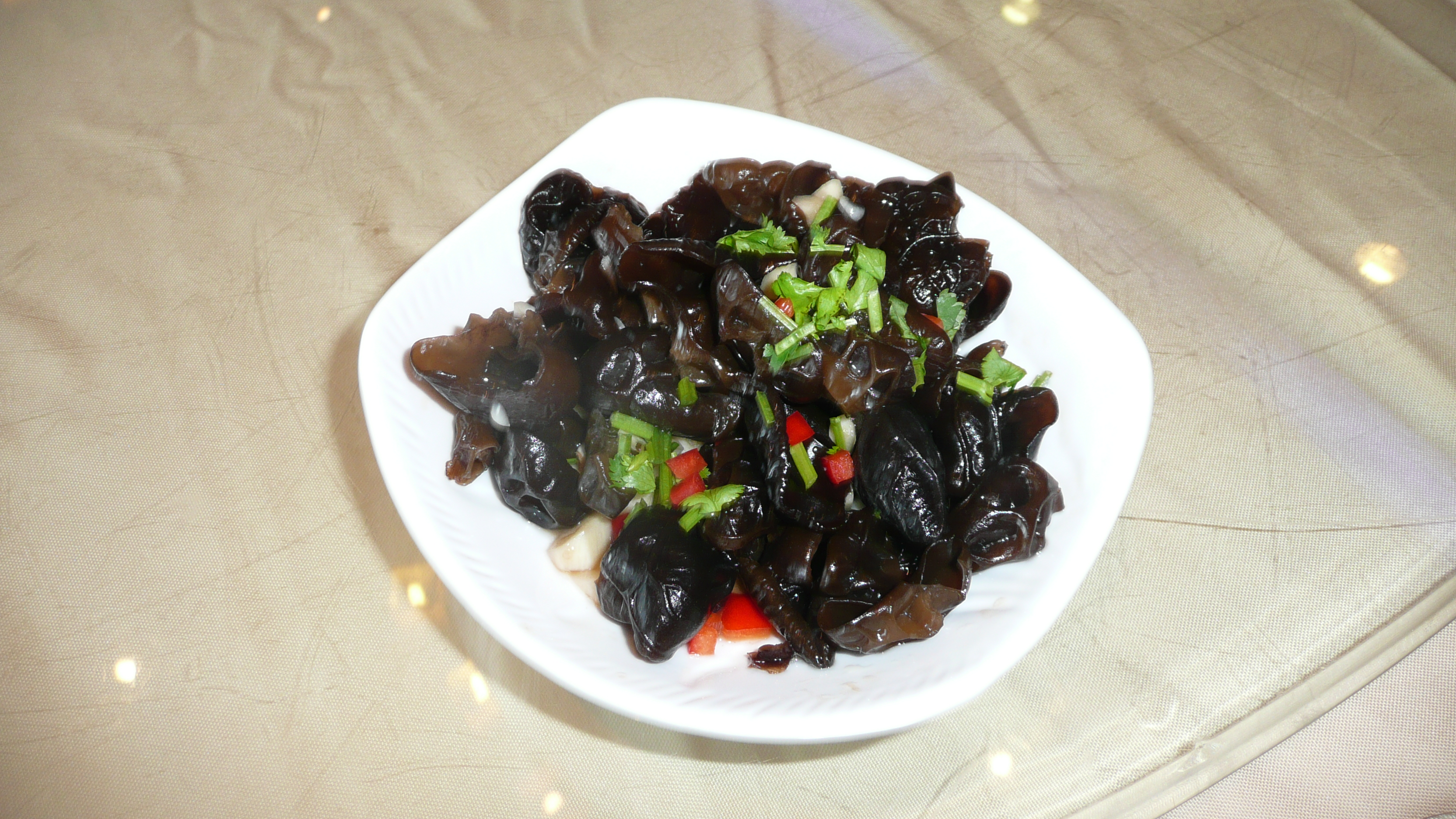 Cuisine of China, Zhuhai, Guangdong